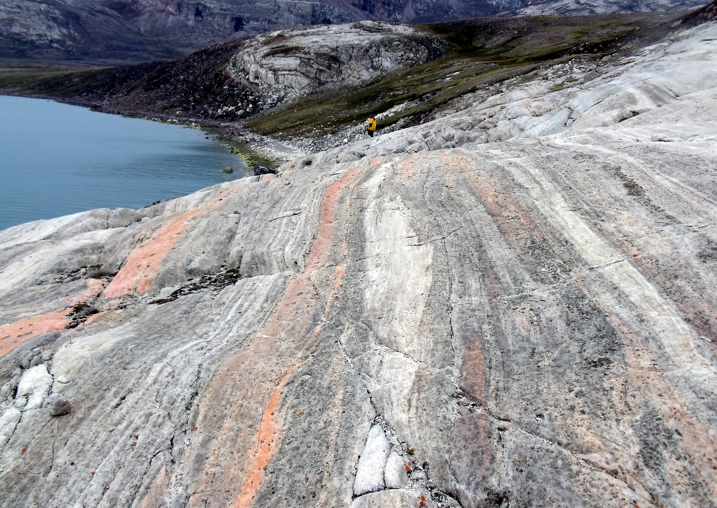 Glacially polished banded coloured marble on Baffin Island. Ilkoo Anguikjuak of Clyde River in the distance on a cool, windy day. His early childhood was spent at his family's camp just a few miles south on raised beaches at the end of Sam Ford Fiord. His folks harvested narwhales and seals from the sea and hunted caribou inland. Mountains and glaciers all round were set aside to focus on what the Inuit call Beautiful Rock.